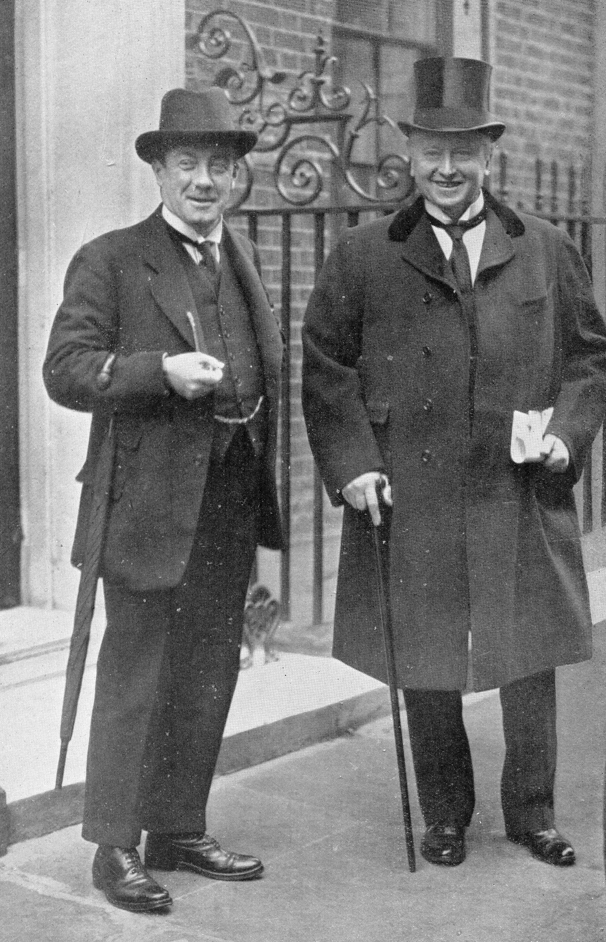 Lord Curzon with Prime Minister Baldwin